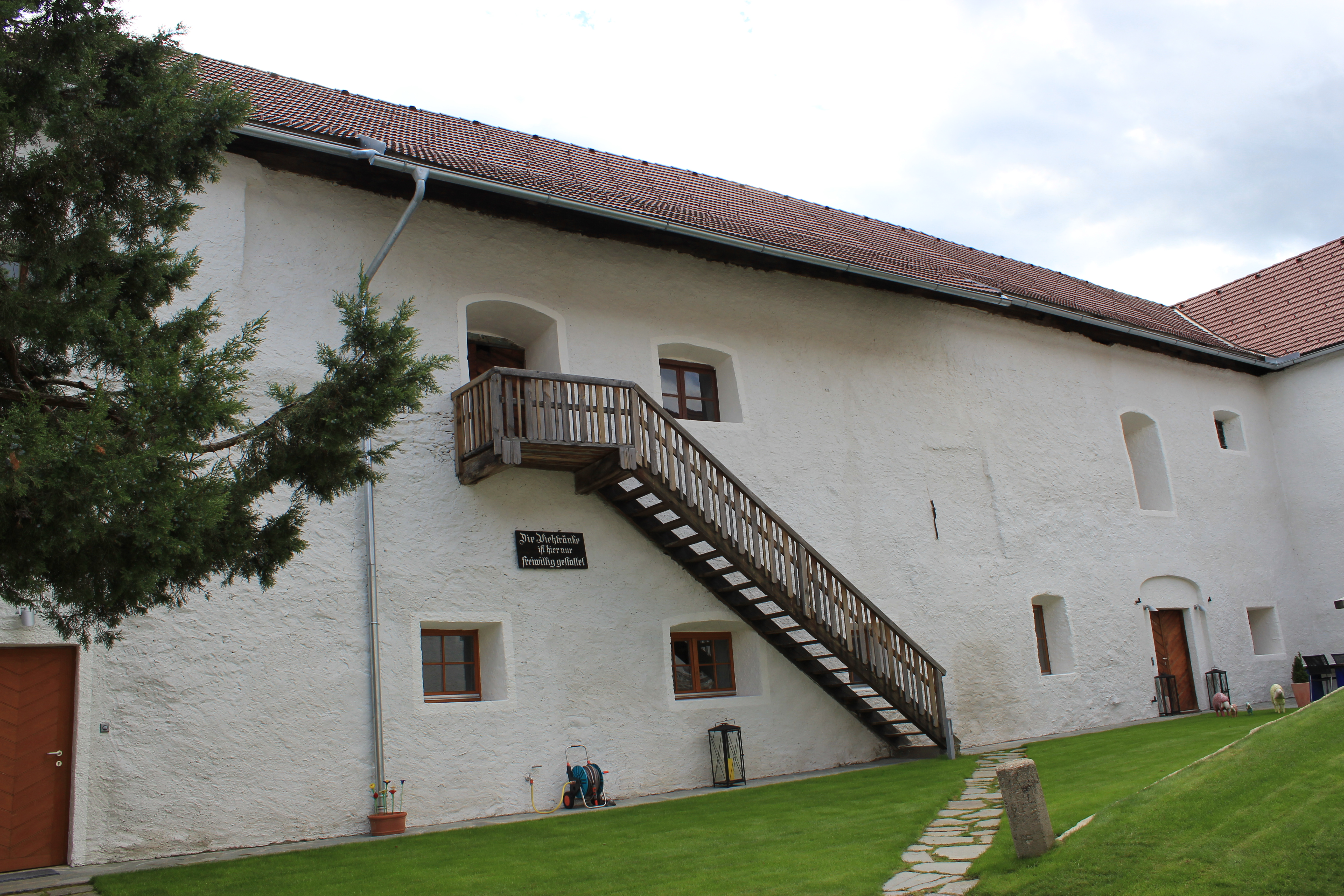 Old building in Gmünd